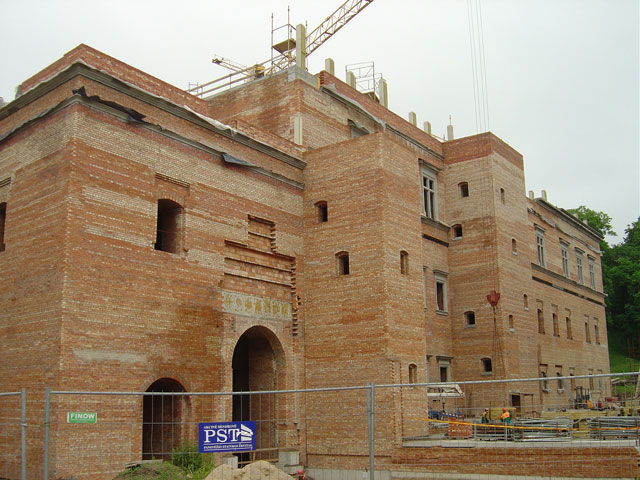 Reconstruction of Lower castle in Vilnius. 2005